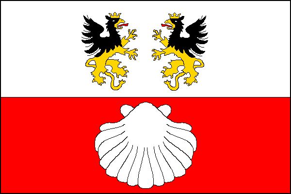 Municipal flag of Zápy market town, Prague-East District, Czech Republic.